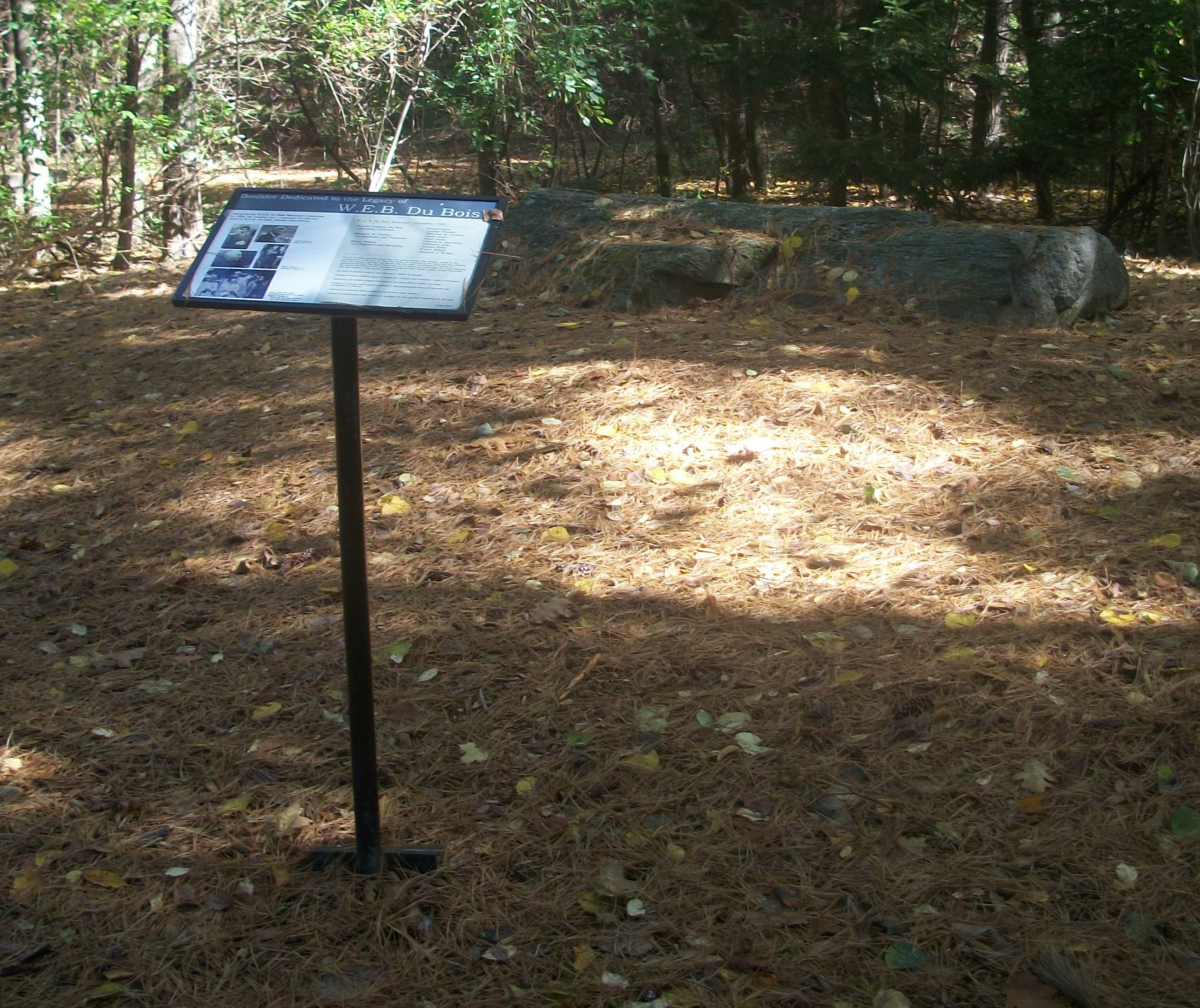 Memorialplaque and boulder at W.E.B Dubois Boyhood Homesite |W.E.B Dubois Boyhood Homesite , outside Great Barrington, MA, USA